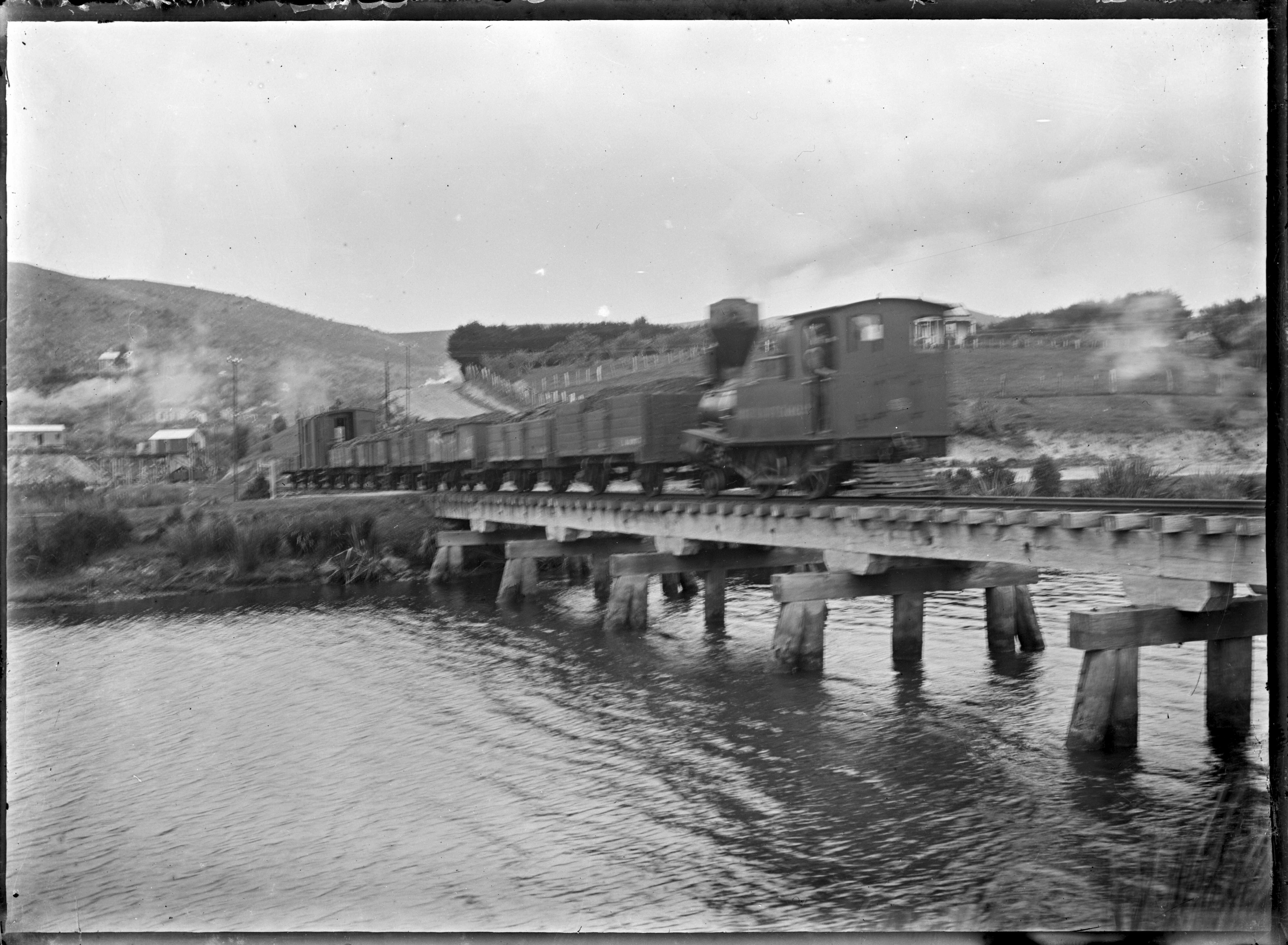 View of a train crossing the railway bridge over the Tokomairiro River at Waronui. Photograph taken circa 1926 by Albert Percy Godber.